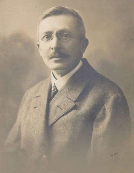 Rado Murnik, Slovene writer, journalist and playwright.